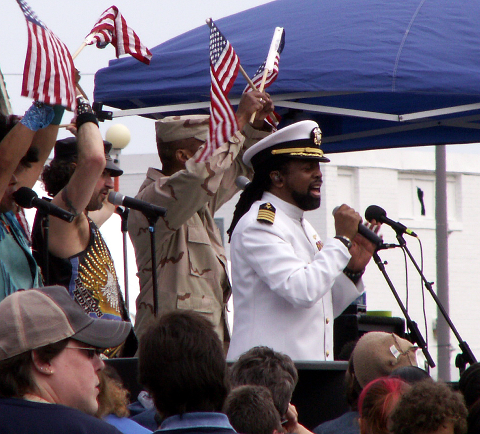 The Village People - In The Navy at Asbury Park, New Jersey June 3, 2006